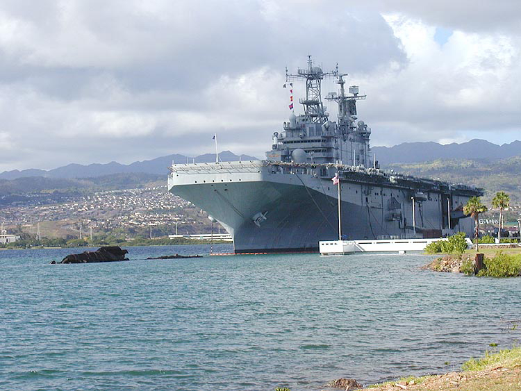 At sea with the Amphibious Assault Ship USS Tarawa (LHA 1) Jun. 25, 2002 -- USS Tarawa moors behind the USS Utah Memorial on Ford Island, during her port visit to Pearl Harbor, Hawaii. Tarawa is participating in the early phase of the multinational maritime exercise Rim of the Pacific (RIMPAC) 2002. In addition to the Tarawa ARG, this year's exercises include a variety of surface combatant ships, submarines and tactical aircraft. More than 30 ships, 24 aircraft and 11,000 Sailors, Marines, Soldiers, Airman and Coast Guardsmen will participate in RIMPAC 2002. The purpose of RIMPAC 2002 is to enhance the tactical proficiency of the participating units in a wide array of combined operations at sea among the seven participating countries. The exercises also help build cooperation and foster mutual understanding between the participating nations. Among the countries participating this year are: Australia, Canada, Chile, Peru, Japan, the Republic of Korea and the United States. U.S. Navy photo by Photographer’s Mate 3rd Class Rodney Jones. (RELEASED)